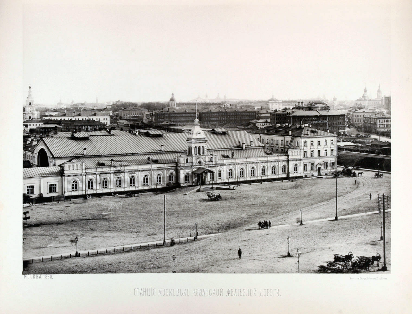 Plate 23: Ryazansky rail terminal in Moscow (soon torn down and replaced by Kazansky Terminal. Presumably shot from Nikolaevsky Terminal tower).